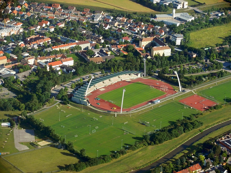 Rudolf Tonn Stadium in Schwechat-Rannersdorf.